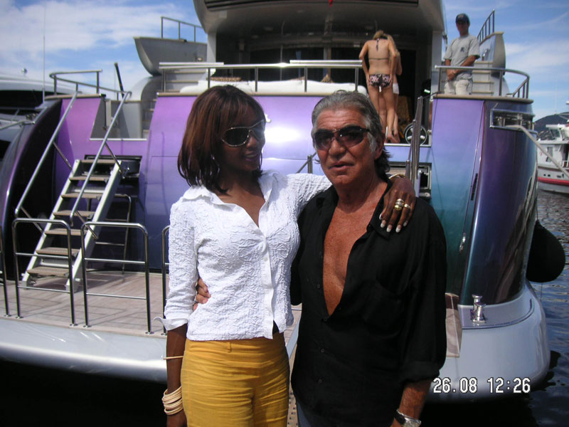 Odette Krempin and her close friend Roberto Cavalli